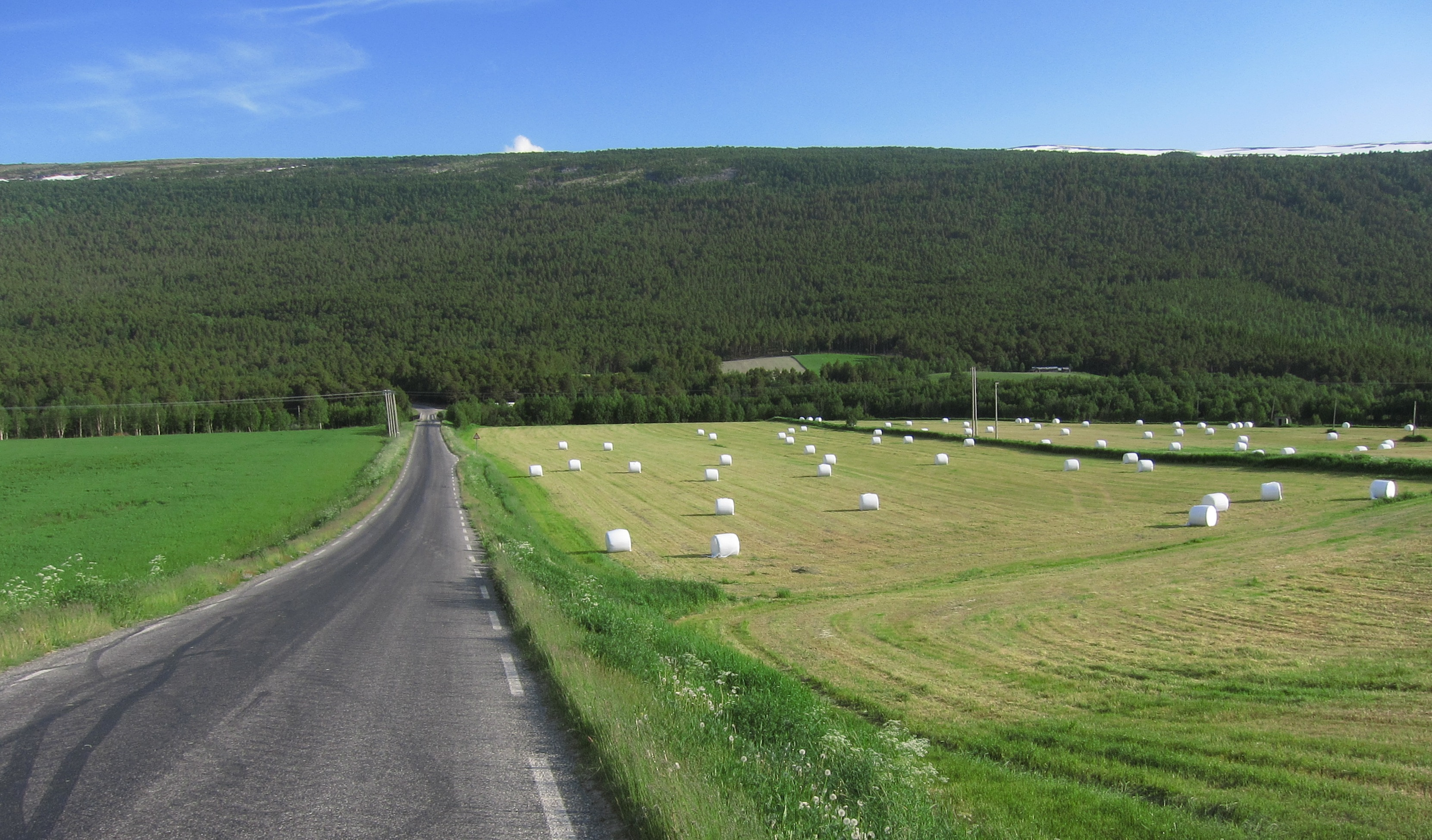 County road 496 in Oppland, "Kyrkjevegen" near Lesja church, Prestegardsbrue across river Lågen in the background